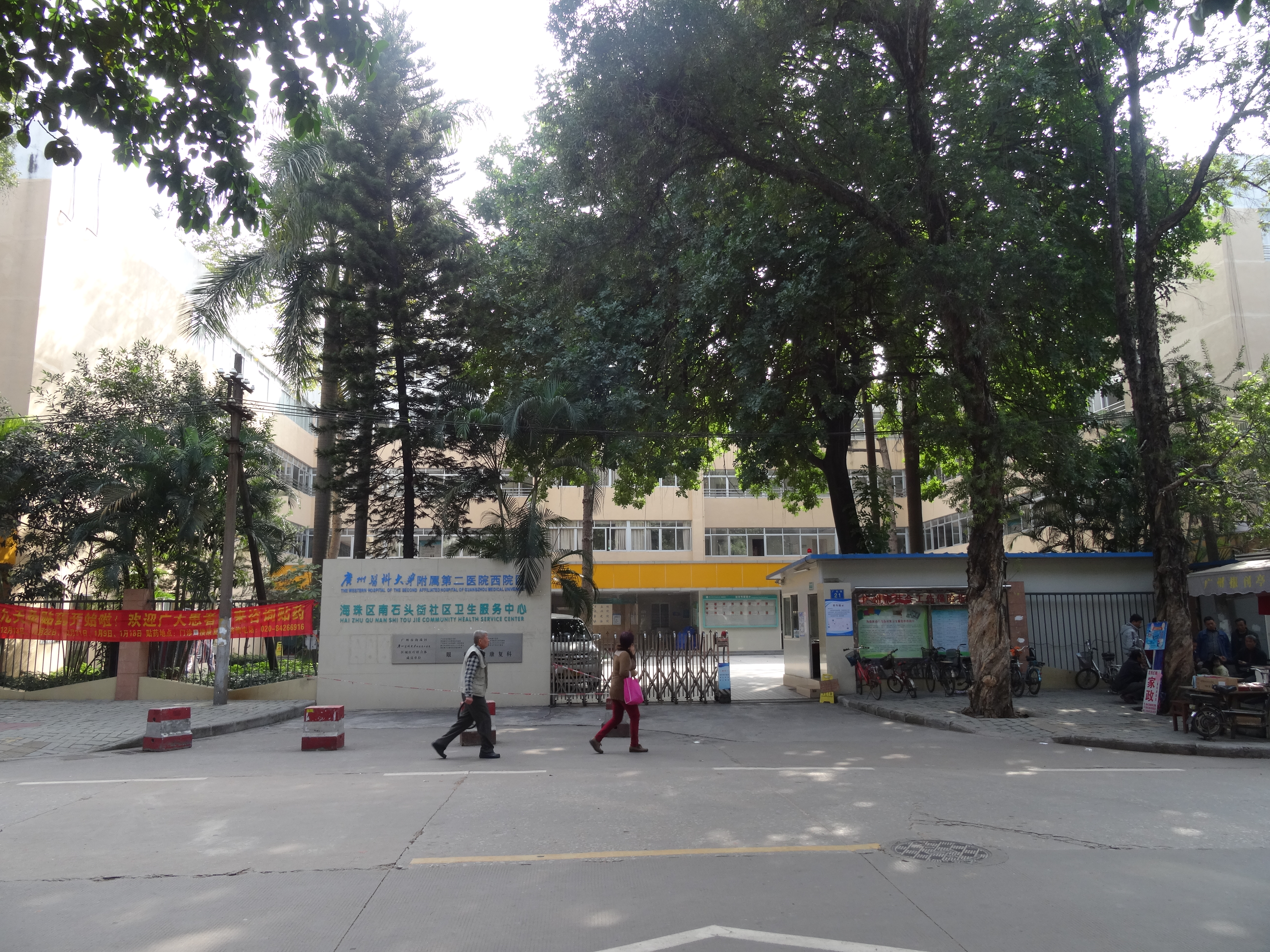 廣州醫科大學附屬第二醫院西院區